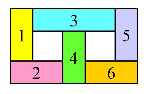 A block placement.